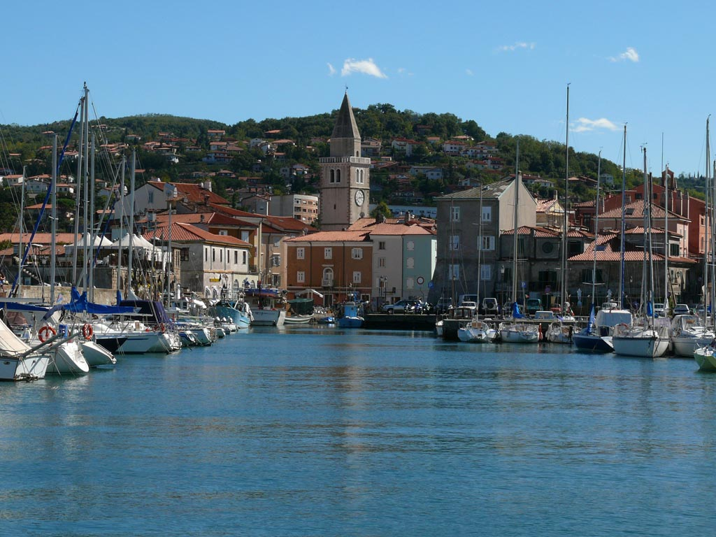 Muggia, seen from the harbour